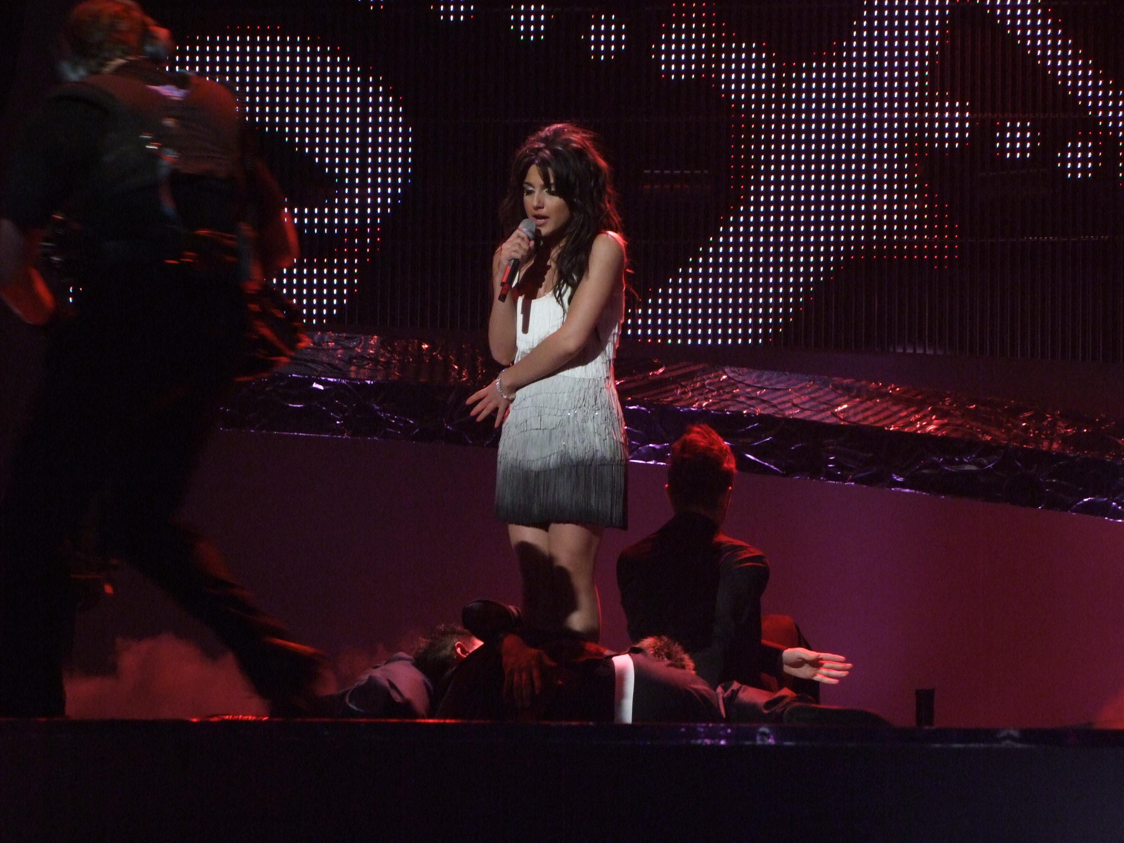 Sirusho, representative of Armenia in Eurovision Song Contest 2008. Taken in Belgrade, 2008. Personality rights warningAlthough this work is freely licensed or in the public domain, the person(s) shown may have rights that legally restrict certain re-uses unless those depicted consent to such uses. In these cases, a model release or other evidence of consent could protect you from infringement claims.